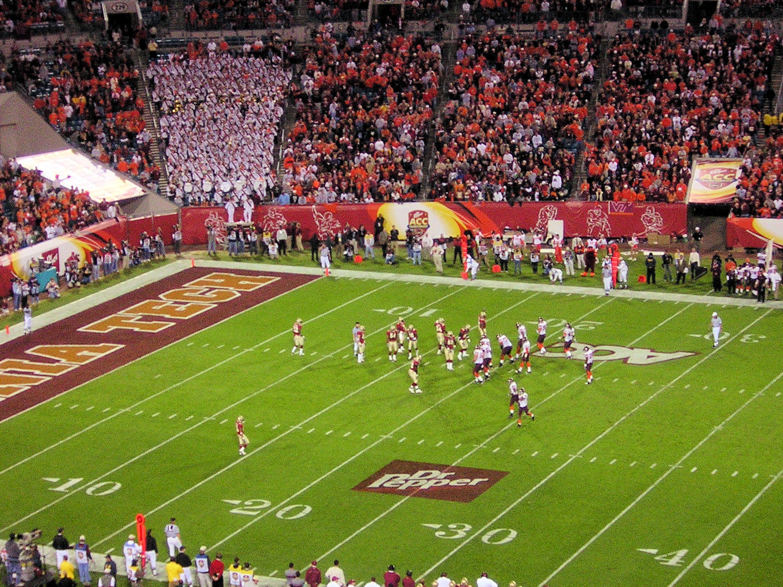 2005 Atlantic Coast title game between Virginia Tech and Florida State